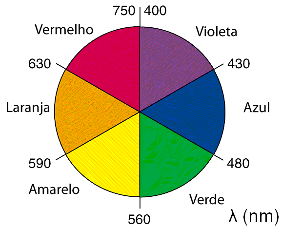 Color wheel with the wavelenght os colours